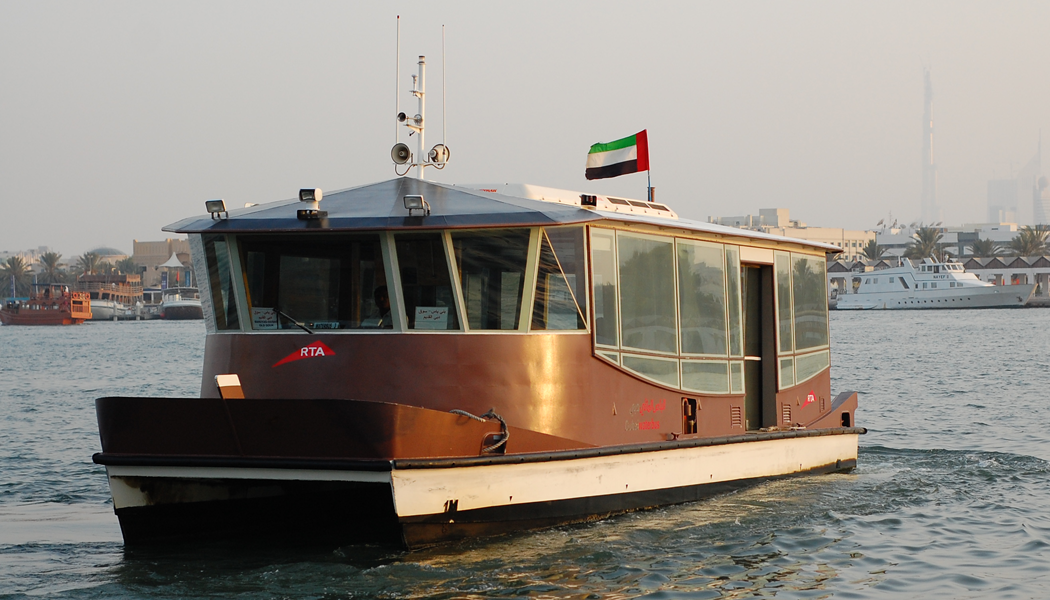 Dubai Waterbus; cruising through Dubai creek.